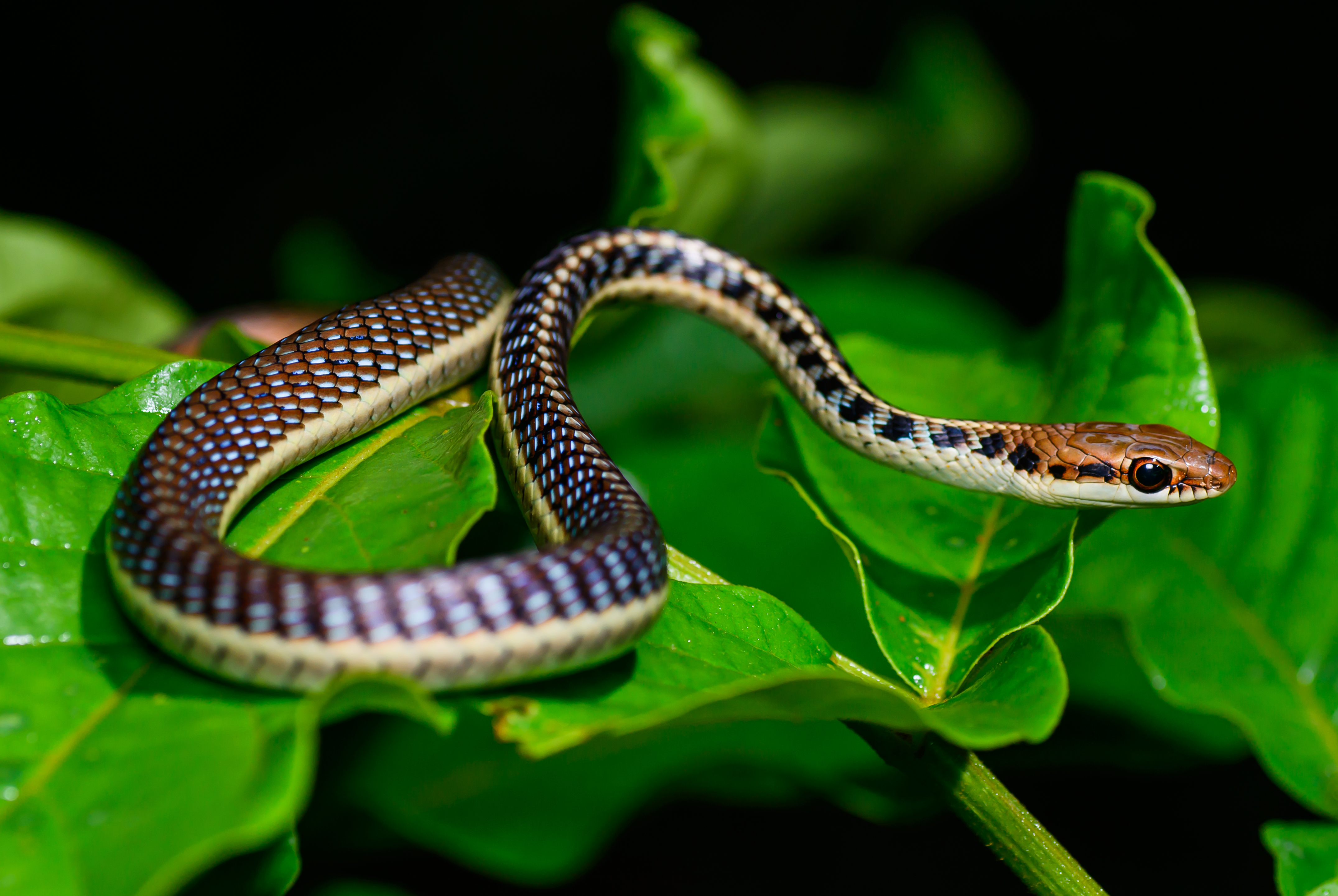 Dendrelaphis subocularis, Kaeng Krachan District, Phetchaburi